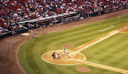 "Slammin" Sammy Sosa at bat for the Chicago Cubs in September 2000.